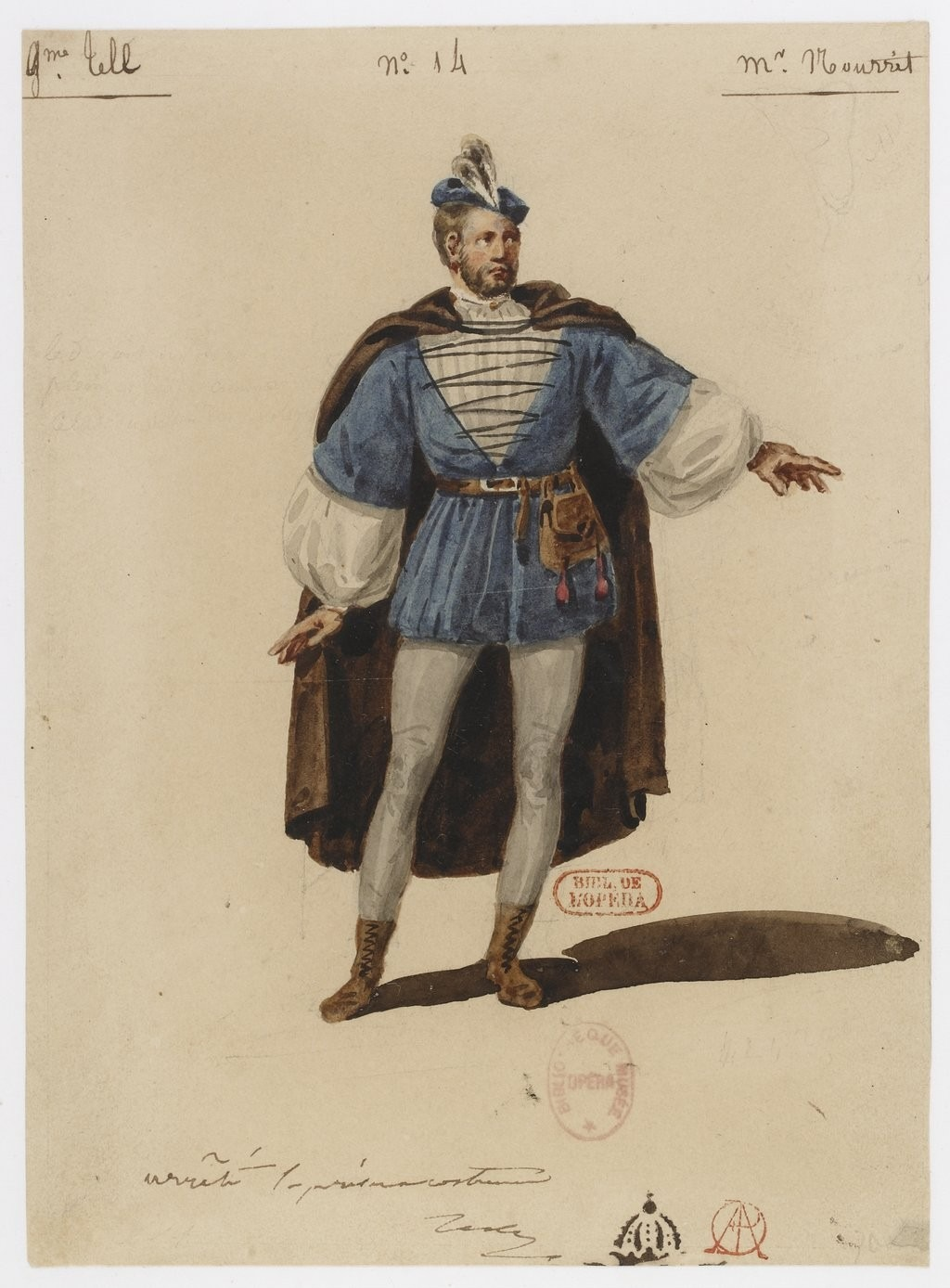 Hipollyte Lecomte - Guillaume Tell - No. 14 Guillaume Tell (M. Nourrit)